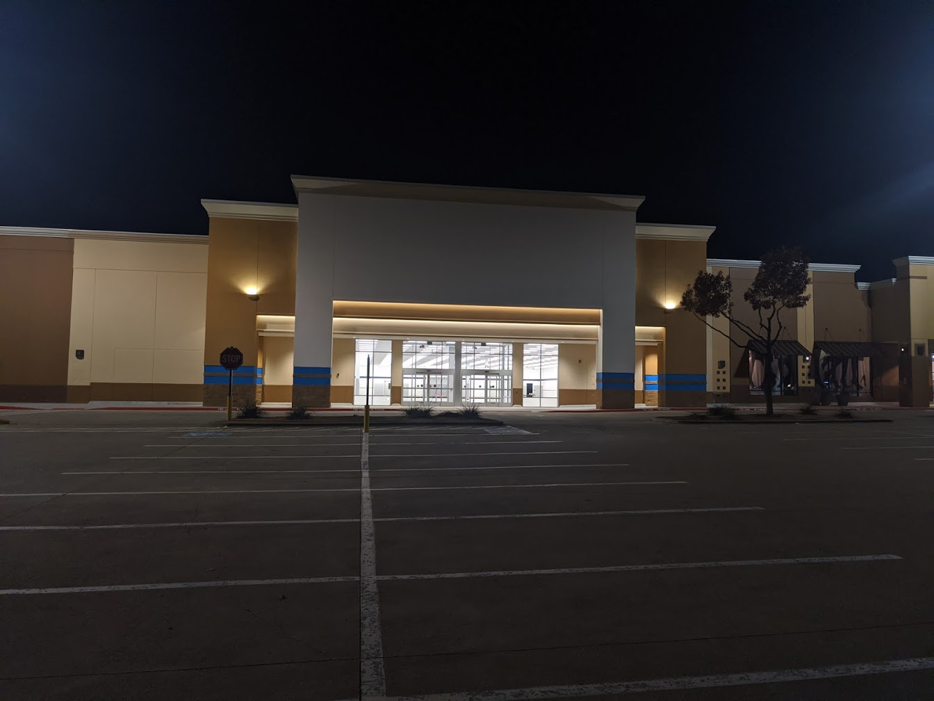 Ross being prepared for opening in November 2019.